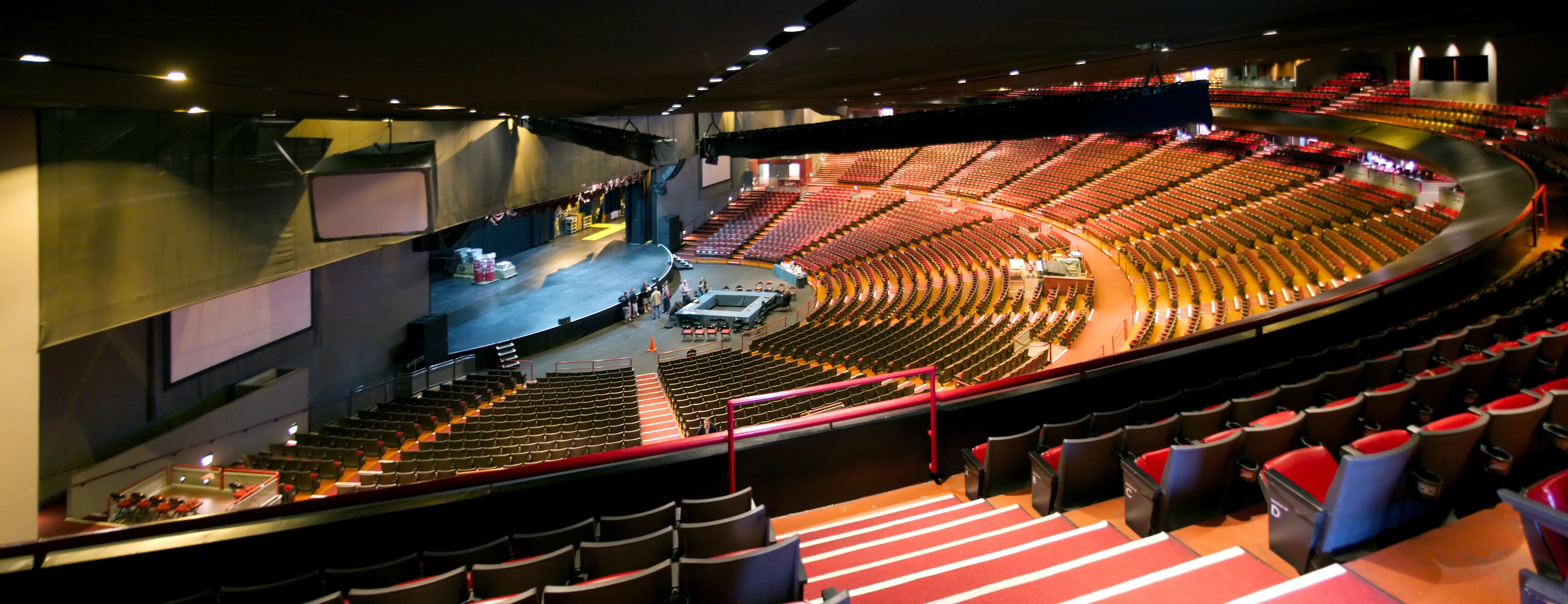 Gibson Amphitheatre, Universal Studios, Studio City, CA. It was known as Universal Amphitheatre until 2005.